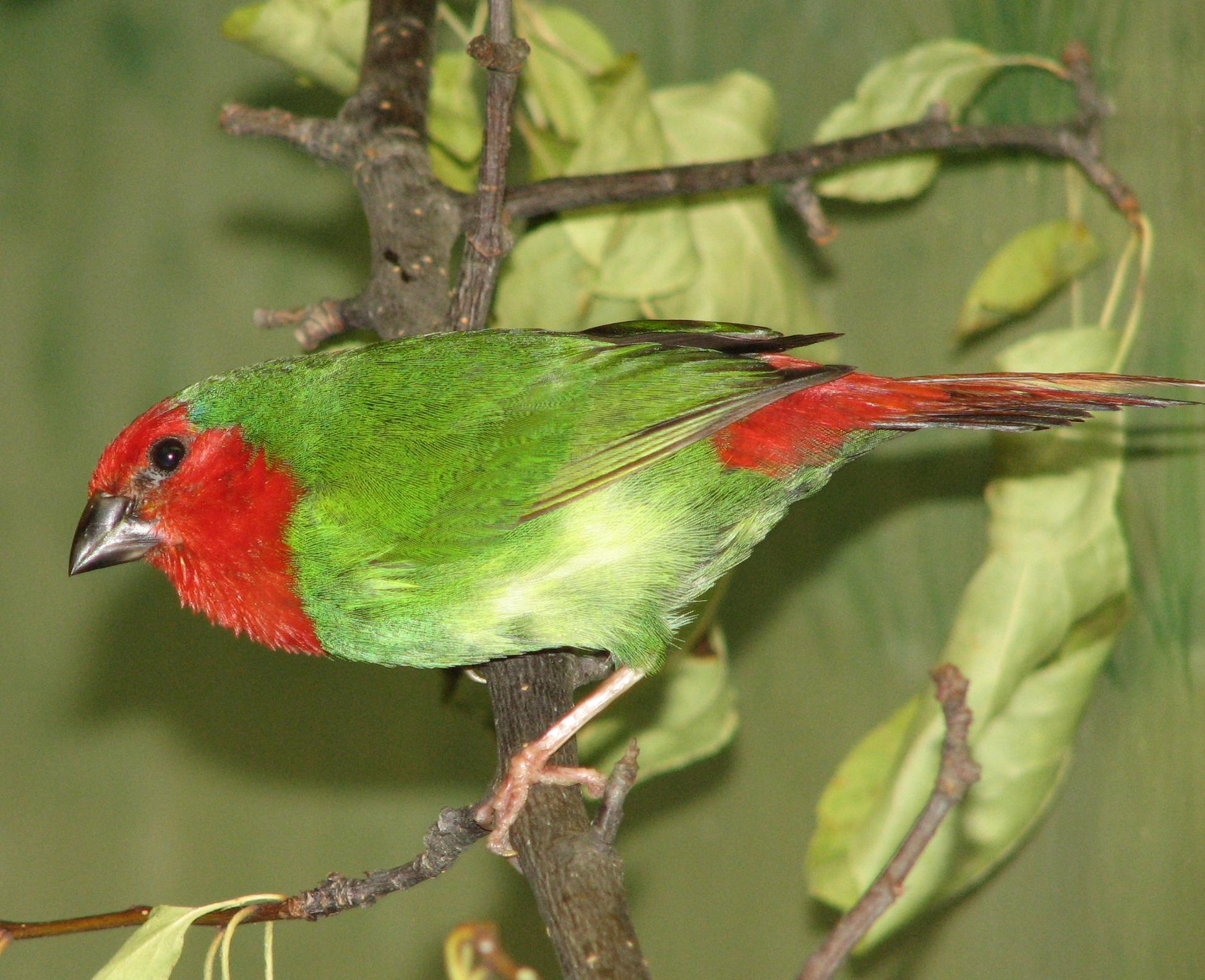 Red-throated Parrot Finch (Erythrura psittacea) at Potter Park Zoo, Michigan, USA.